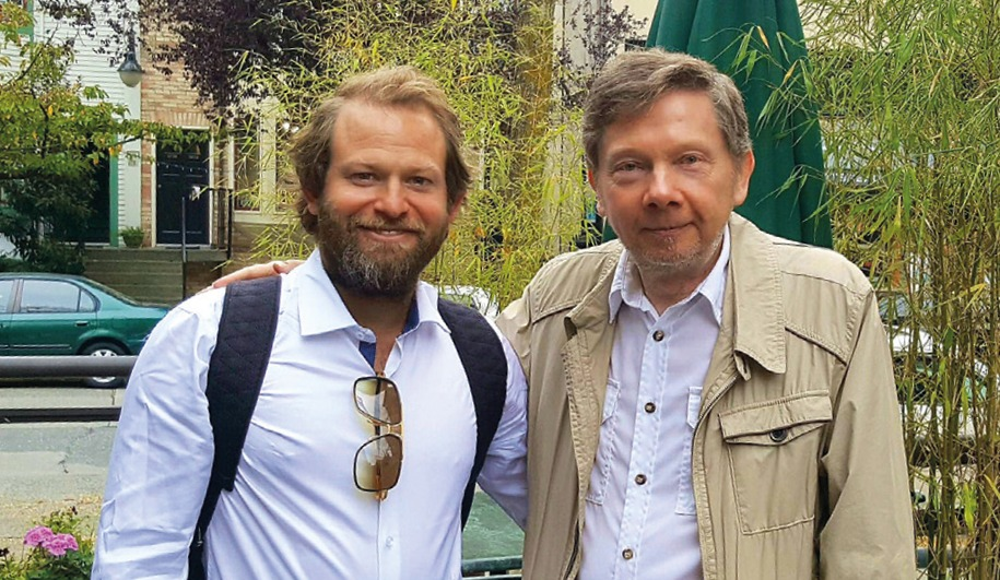 Alexander de Cadenet and Eckhart tolle